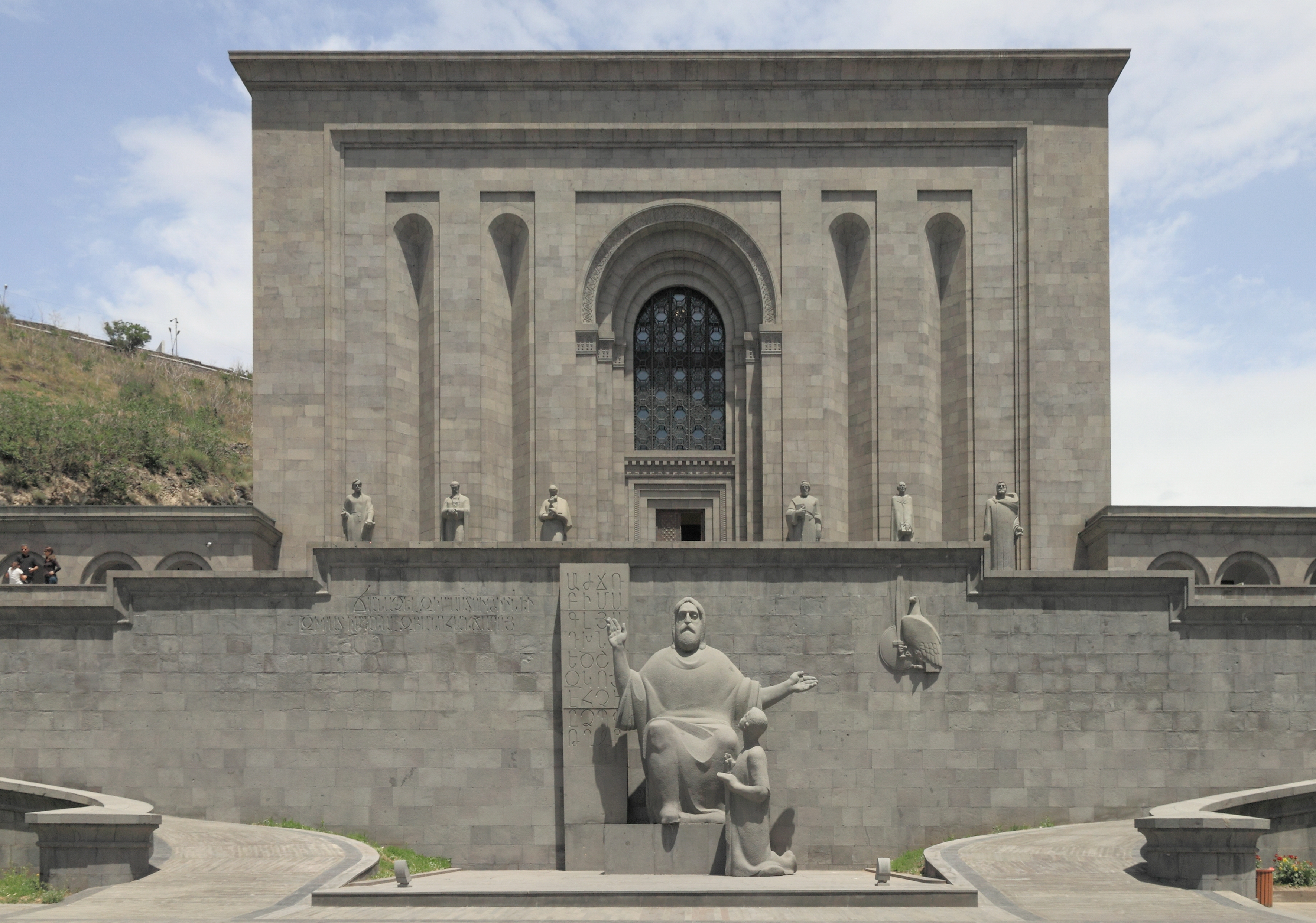 Matenadaran. Yerevan, Armenia.